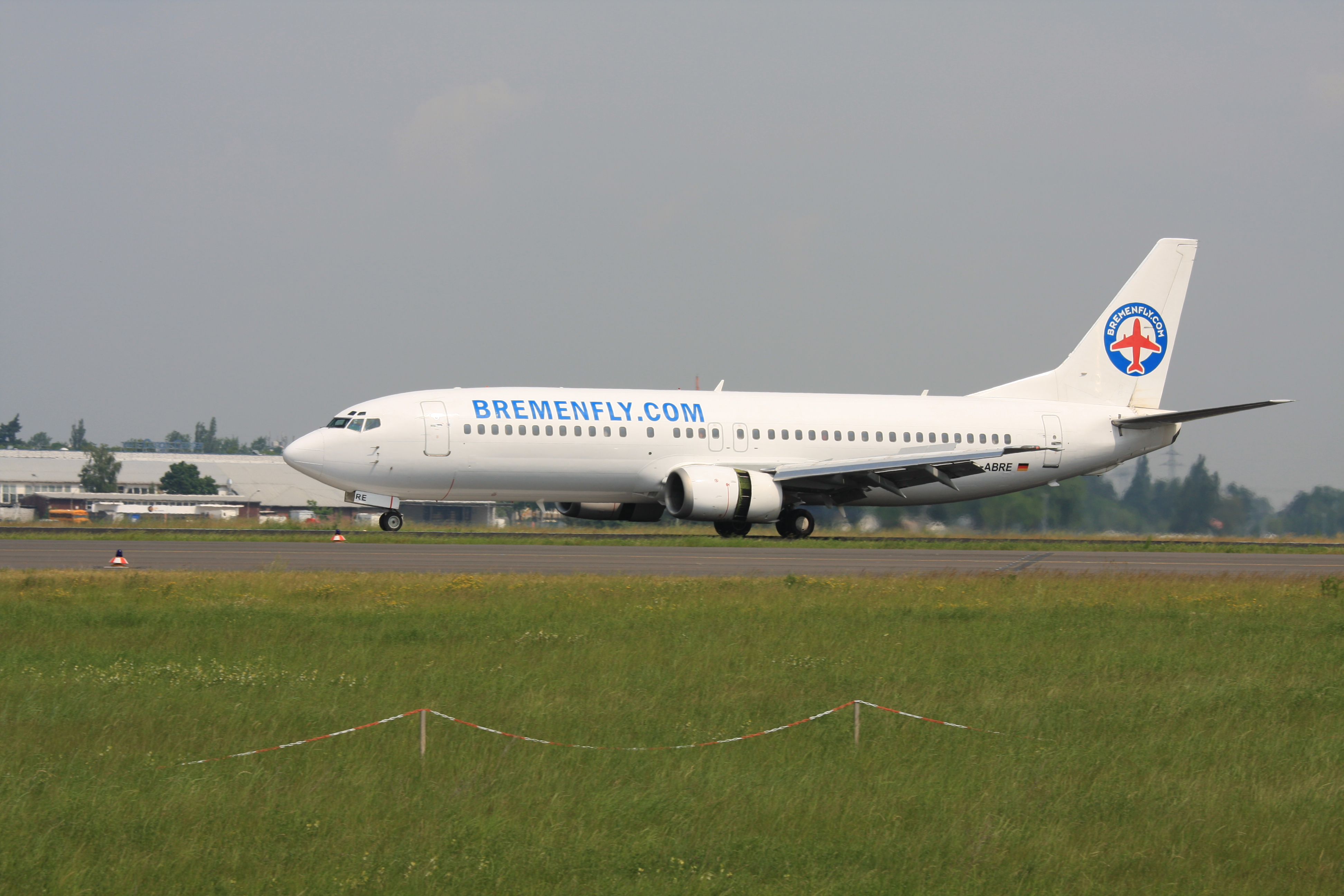 Boeing 737 of Bremenfly landing at Berlin Schönefeld Airport (picture taken during the International Air and Space Exhbition)